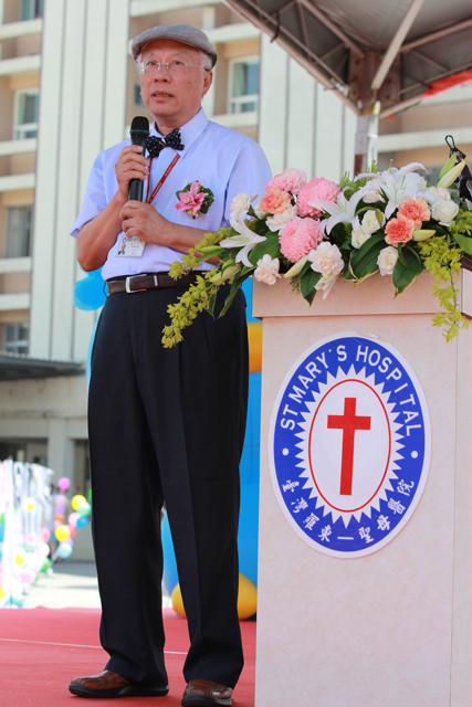 Chen Yun-Shin